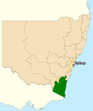 This image incorporates data that is: © Commonwealth of Australia (Australian Electoral Commission) 2009 Division of Eden-Monaro 2010